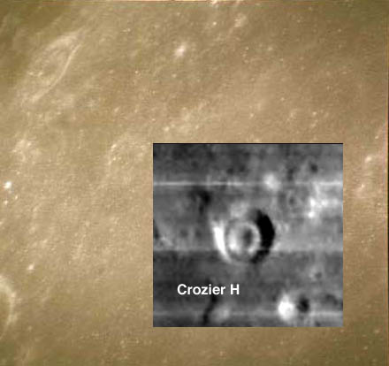 The Apollo 16 view (in a sepia tone to indicate antiquity) and a Lunar Orbiter IV view.